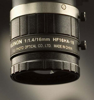 SVIA Camera